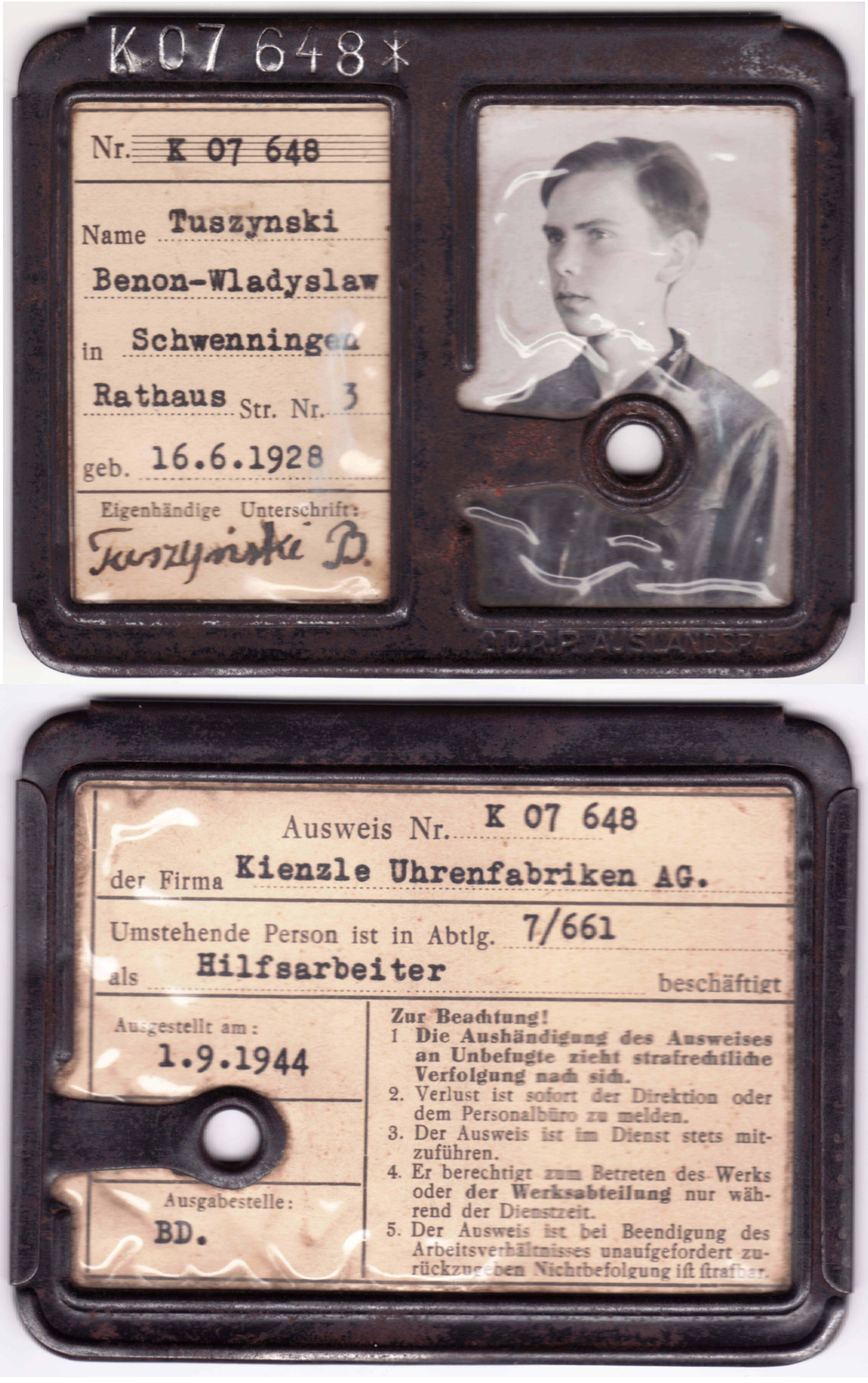 Benon Tuszynski's Ausweis from Kienzle Uhren factory where he was employed as a forced labor. Made of paper inside sturdy plastic shielding in steel casing.